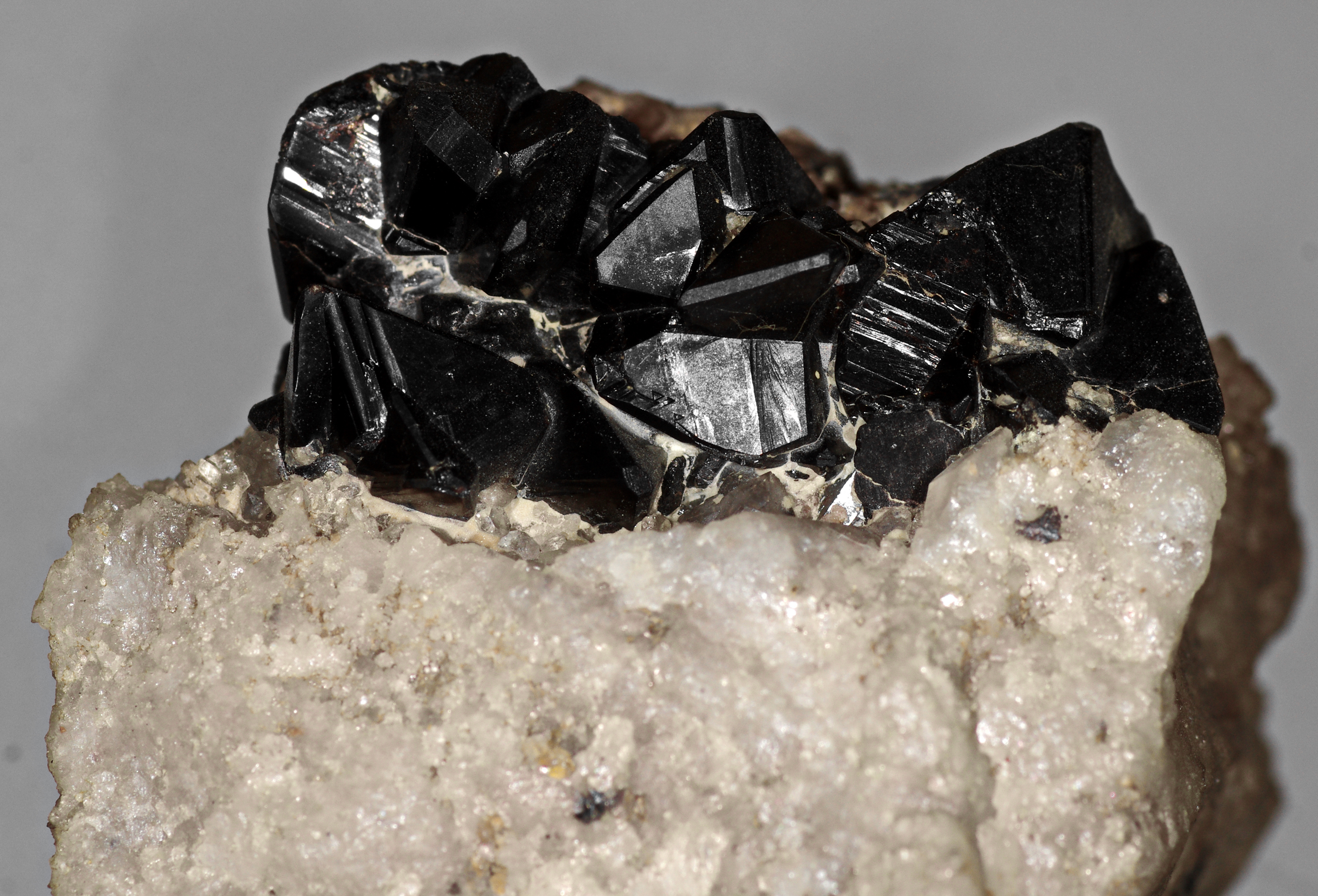 Cassiterite – Krásno, Karlovy Vary Region, Czech Republic